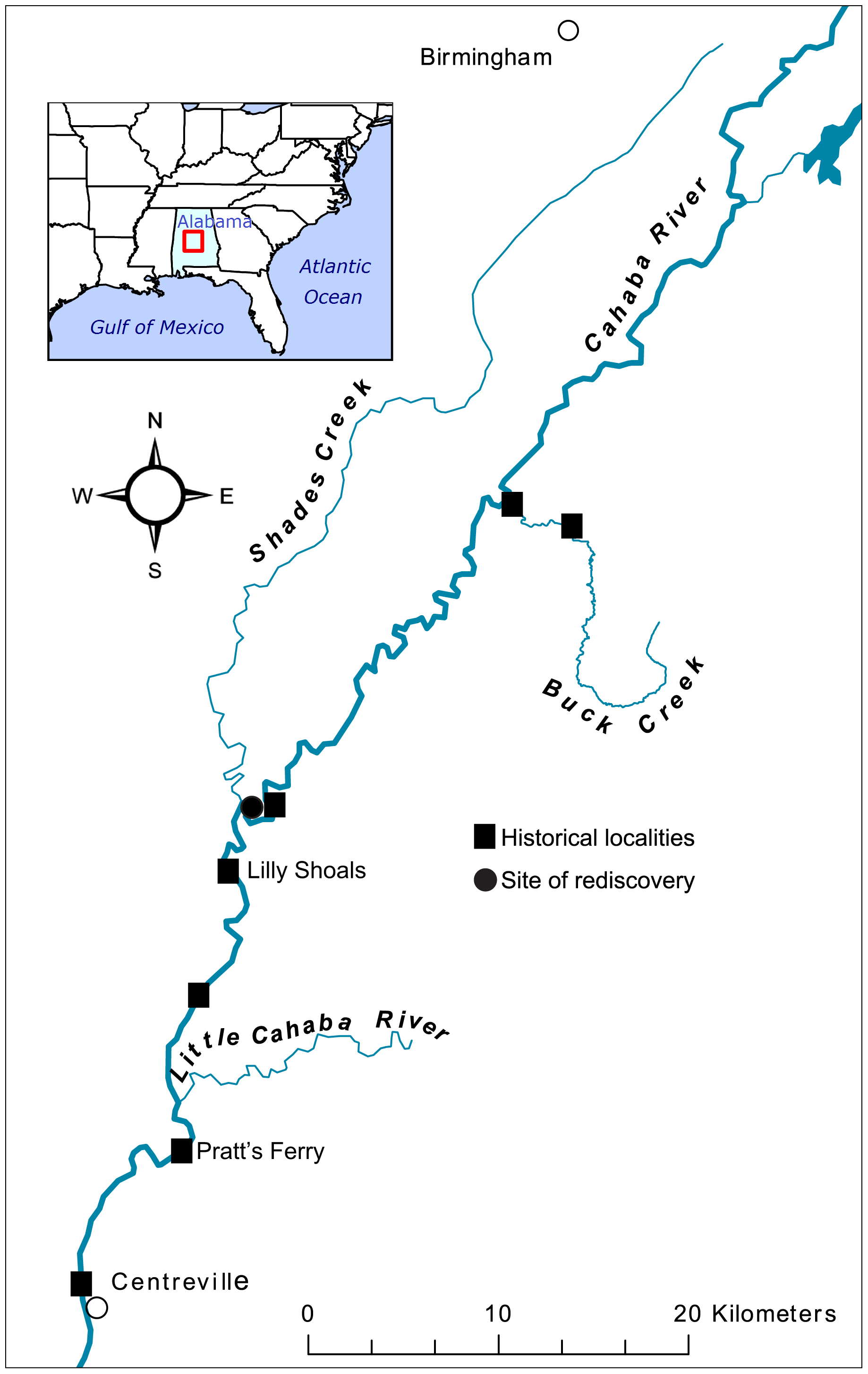 Map of the Cahaba River and select tributaries. Historical collections sites were sampled in August 2011, but Leptoxis compacta was found only at the site of re-discovery.